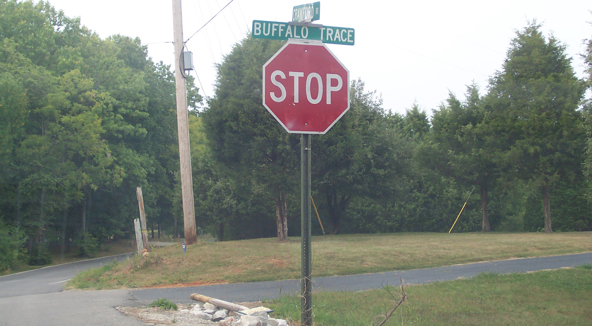 Road sign of the Buffalo Trace in southern Indiana, photo taken in Morgan Township, Harrison County, Indiana near the northern branch of the Harrison County Library